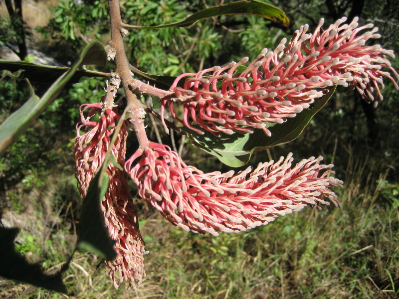 Manica beechwood or Faurea rubriflora (Proteaceae) on Mount Whenje in Manica province of Mozambique (1000 m.a.s.).